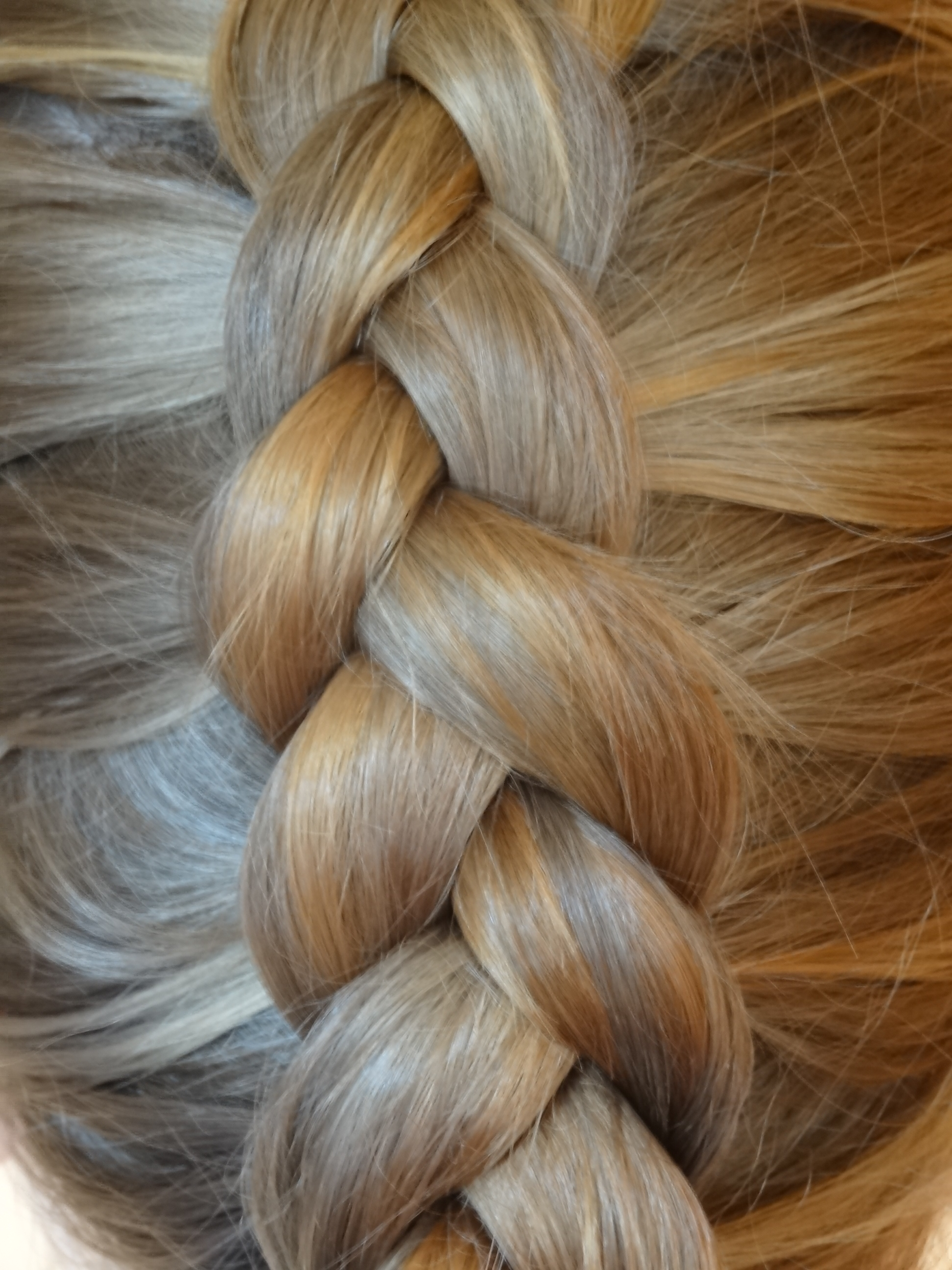 close-up of a dutch braid (= inverse french braid)